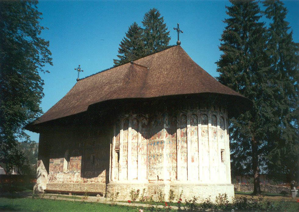 Painted Church